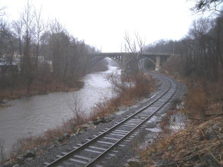 Reynolds Brige, an open-spandrel concrete arch bridge listed on the NRHP, near Thomaston, Connecticut, spanning the Naugatuck River. View from south.